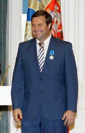 Vladimir Salnikov, Russian swimmer